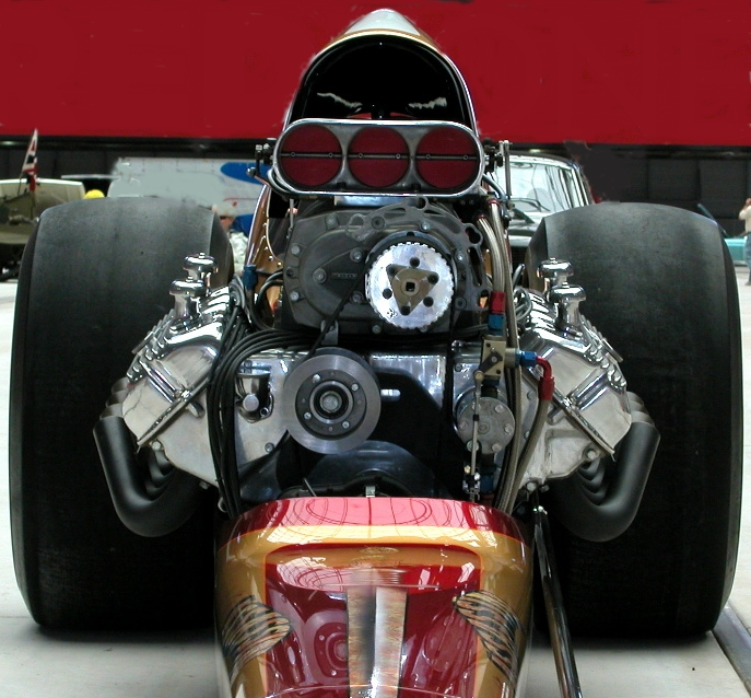 Assassin Front engine dragster.